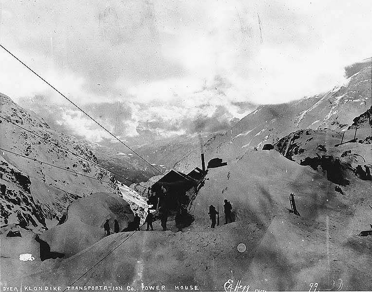 Title: Aerial tramway powerhouse of the Dyea-Klondike Transportation Company, Chilkoot Pass, Alaska, ca. 1898. Photographer: Hegg, Eric A., 1867-1948 Dateca. 1898 NotesCaption on image: ""Dyea Klondike Transportation Co. power house"" URL: RepositoryUniversity of Washington Libraries. Special Collections Division